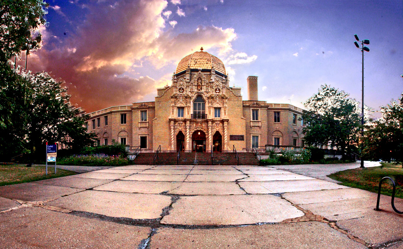 Garfield Park, 100 N. Central Park Avenue East Garfield Park